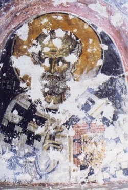 Fresco of Nicholas in St.Nicholas Cave Church in Dradnja, Macedonia